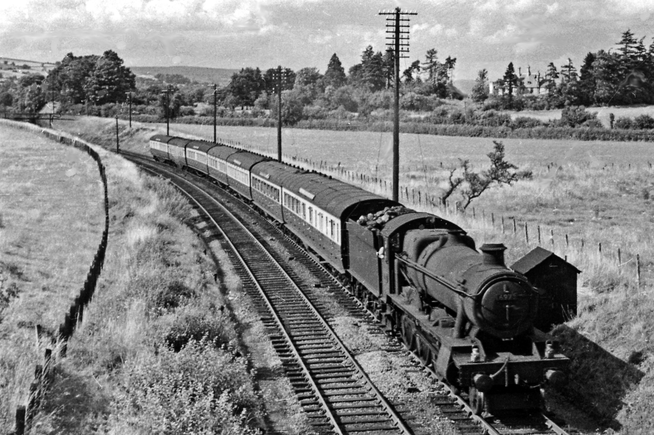 Sunday Birkenhead - Paddington express approaching Weston Rhyn station. View northward, towards Wrexham, Chester and Birkenhead; ex-GWR Birmingham - Shrewsbury - Chester main line. The 14.55 from Birkenhead Woodside will eventually reach Paddington at 21.25: 'Modified Hall' 4-6-0 No. 6971 'Athelhampton Hall' (built 10/47, withdrawn 10/64) was working it between Chester and (probably) Wolverhampton. The train has just crossed the Chirk Viaduct over the River Ceiriog, which marks the 'international' boundary between Wales (Denbighshire) and England (Shropshire) and is passing Trehowell Halt - just hidden behind the camera; the Halt was opened 27/7/35 and very soon (29/10/51) be closed. Weston Rhyn station was 'Preesgweene' until 1935. In the distance is Ruabon Mountain.